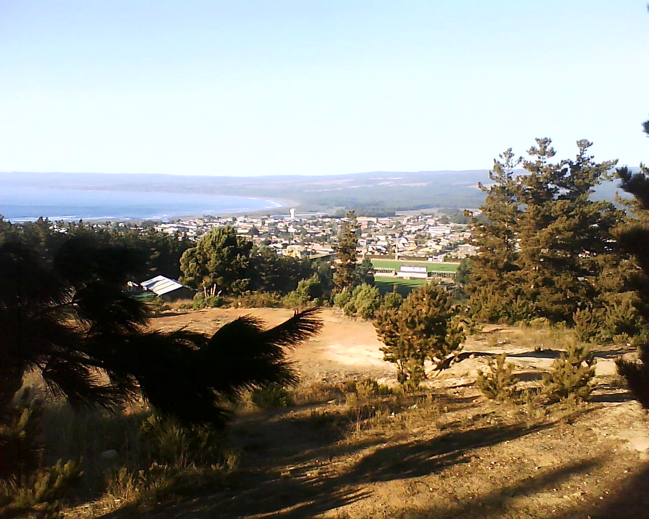 Pichilemu viewed from La Cruz Hill, in March 15, 2010.